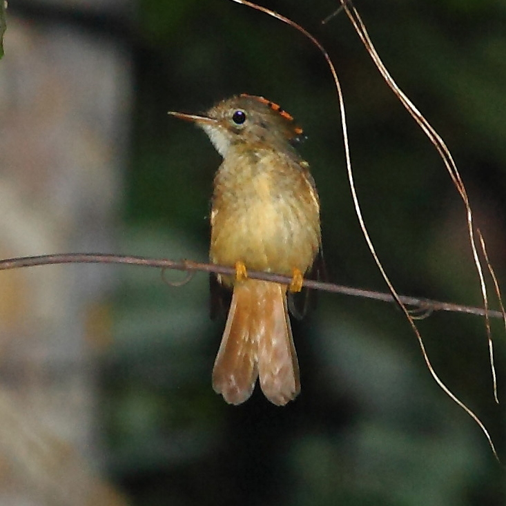 Amazonian Royal Flycatcher at Apiacás - MT - Brazil